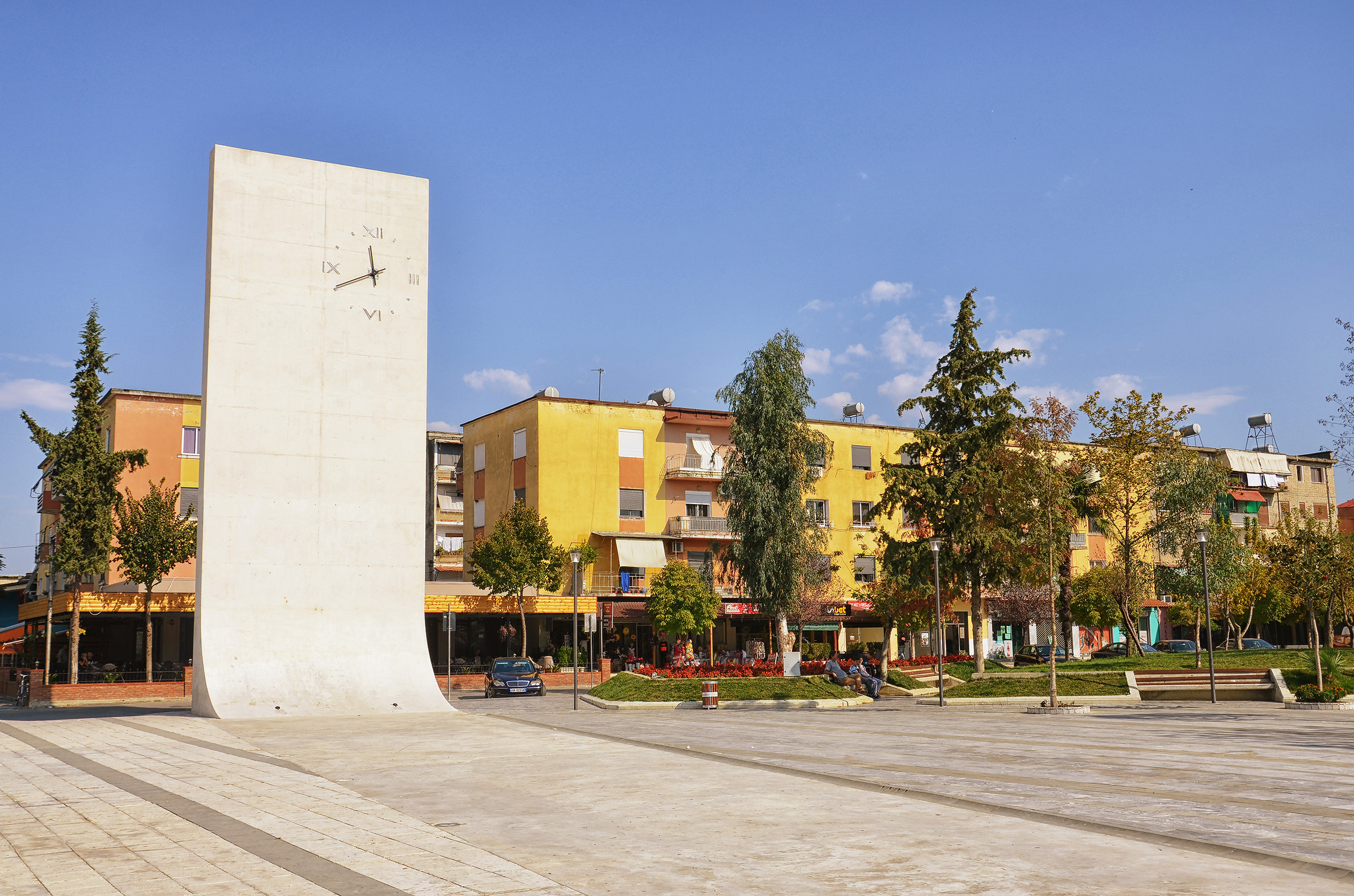 The main square of Cërrik, Albania